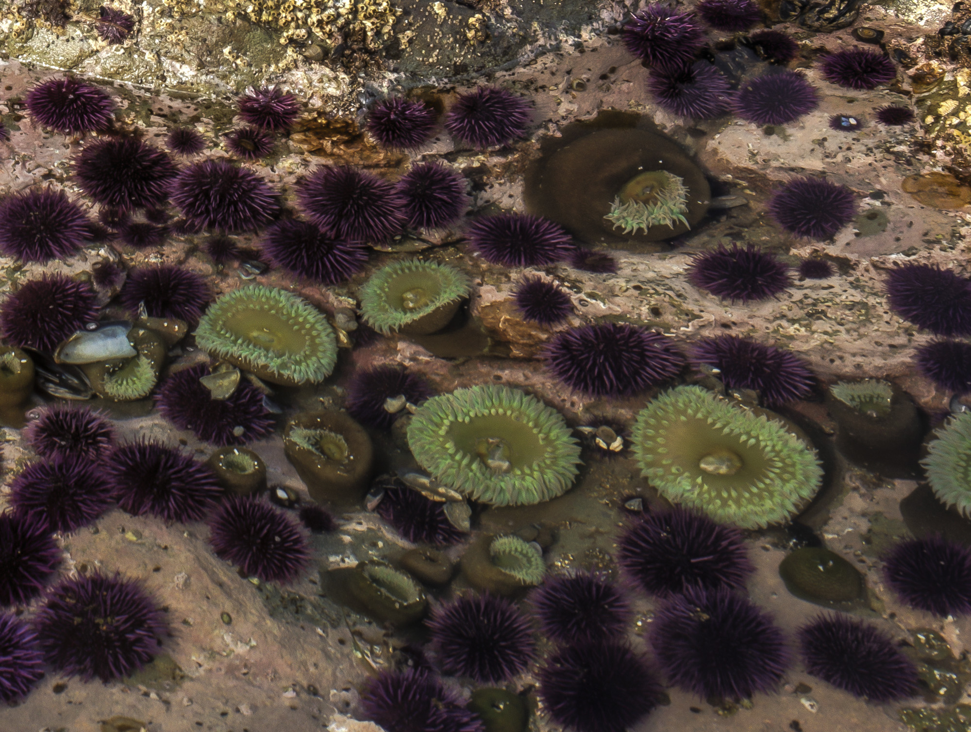 A spectacular meeting of land and sea is certainly the dominant feature of King Range National Conservation Area. Mountains seem to thrust straight out of the surf; a precipitous rise rarely surpassed on the continental U.S. coastline. King Peak, the highest point at 4,088 feet, is only three miles from the ocean. The King Range NCA covers 68,000 acres and extends along 35 miles of coastline between the mouth of the Mattole River and Sinkyone Wilderness State Park. Here the landscape was too rugged for highway building, forcing State Highway 1 and U.S. 101 inland. The remote region is known as California's Lost Coast, and is only accessed by a few back roads. The recreation opportunities here are as diverse as the landscape. The Douglas-fir peaks attract hikers, hunters, campers and mushroom collectors, while the coast beckons to surfers, anglers, beachcombers, and abalone divers to name a few. For more information visit: Photos/Videos: Bob Wick, BLM